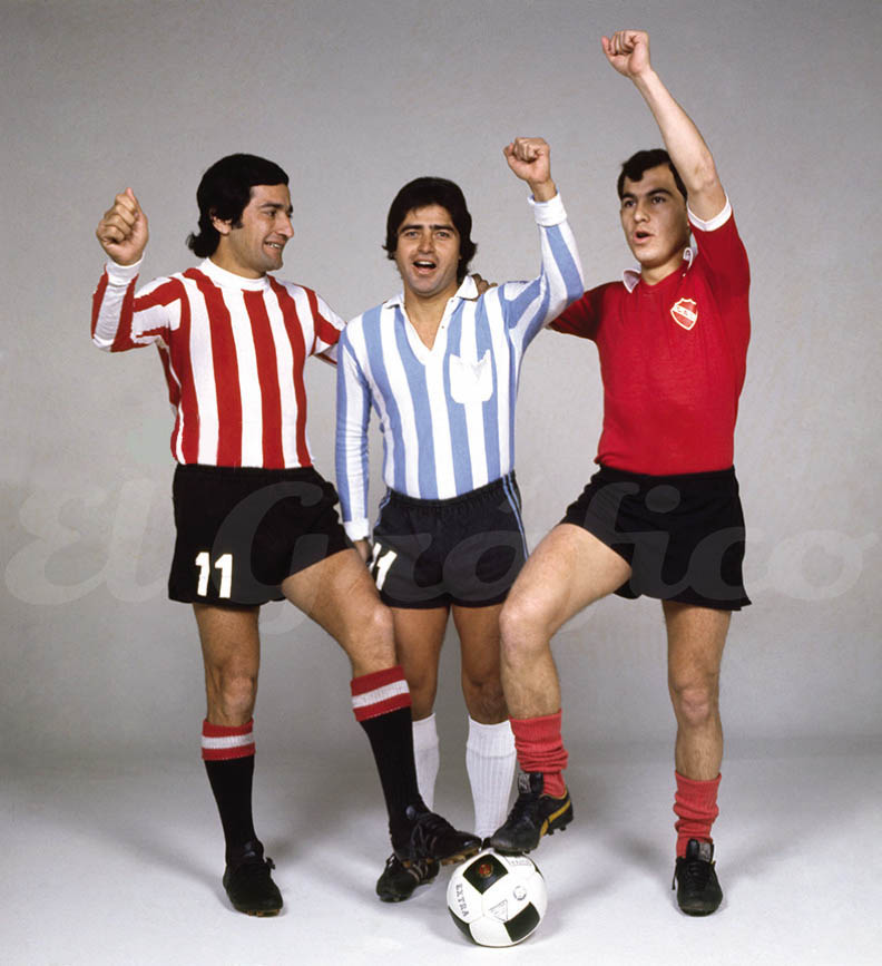 Three players of Argentine teams that had won the Intercontinental Cup, joined for a photo production of El Gráfico: Juan Ramón Verón (Estudiantes LP), Juan C. Cárdenas (Racing) and Ricardo Bochini (Independiente).